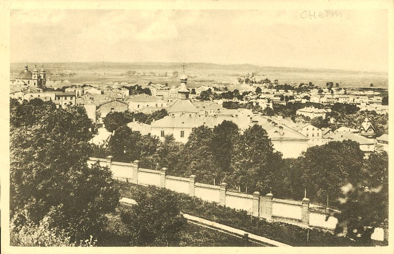 an old photo of Chelm in Poland